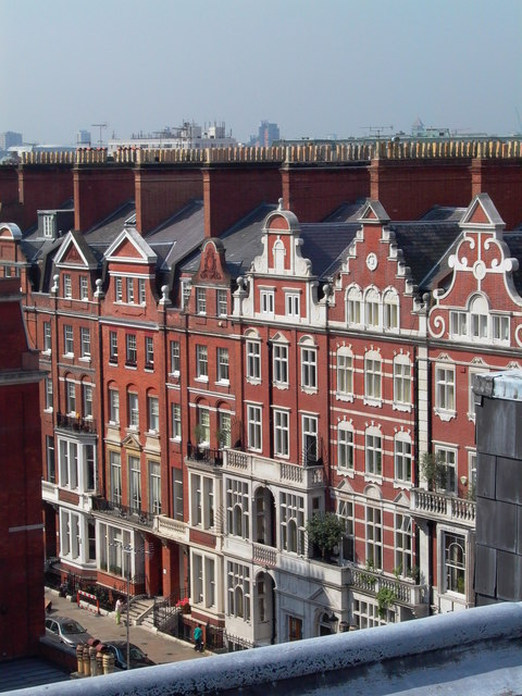 Cadogan Square, London SW1X The view shows part of the north west terrace of houses in Cadogan Square - just south of Pont Street. Originally built as individual grand houses with mews houses to the rear. Over the years they have been converted into grand apartments and form part of the Cadogan Estate.